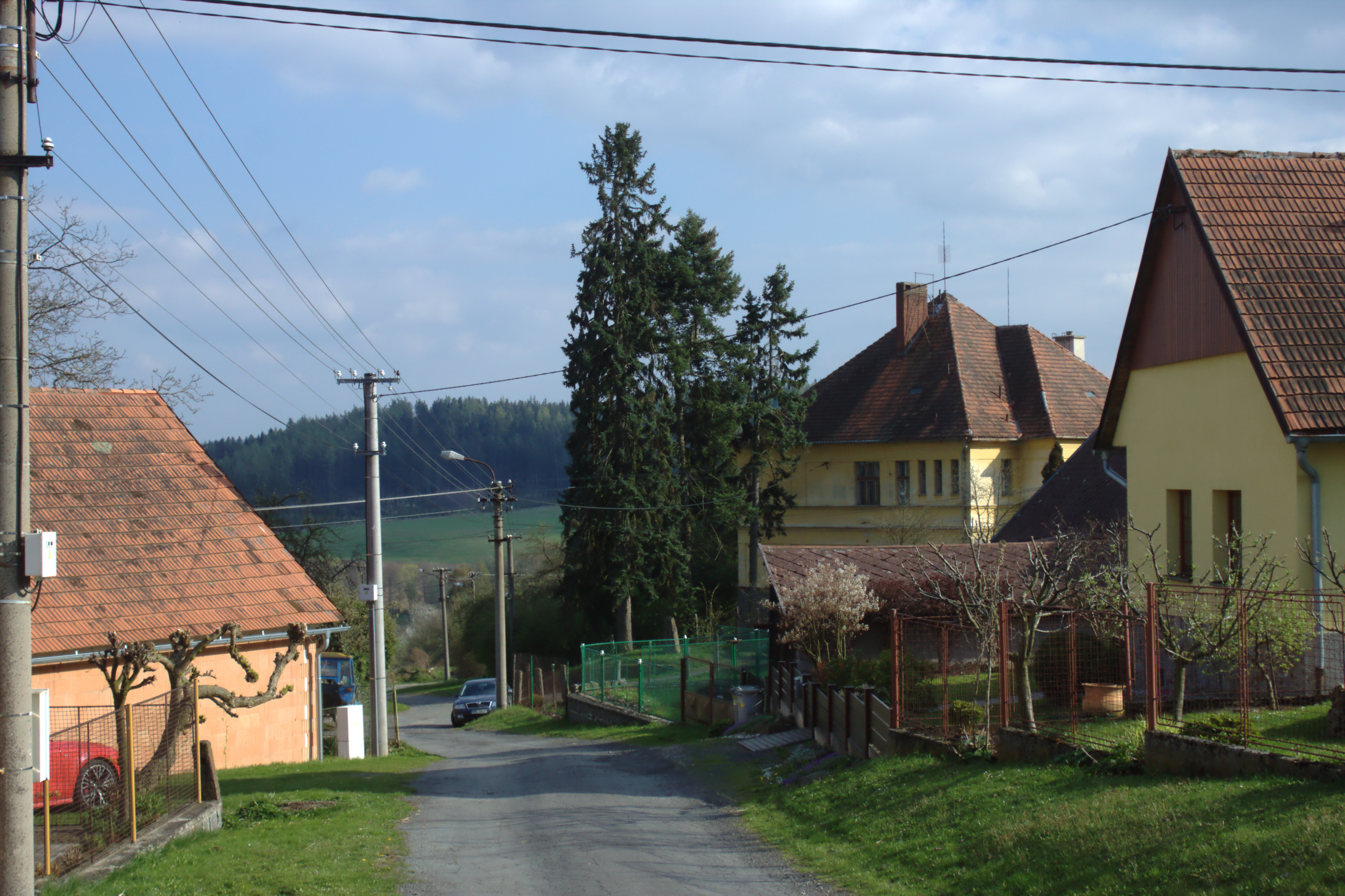 Buildings in the southern part of the village of Ústaleč, Plzeň Region, CZ